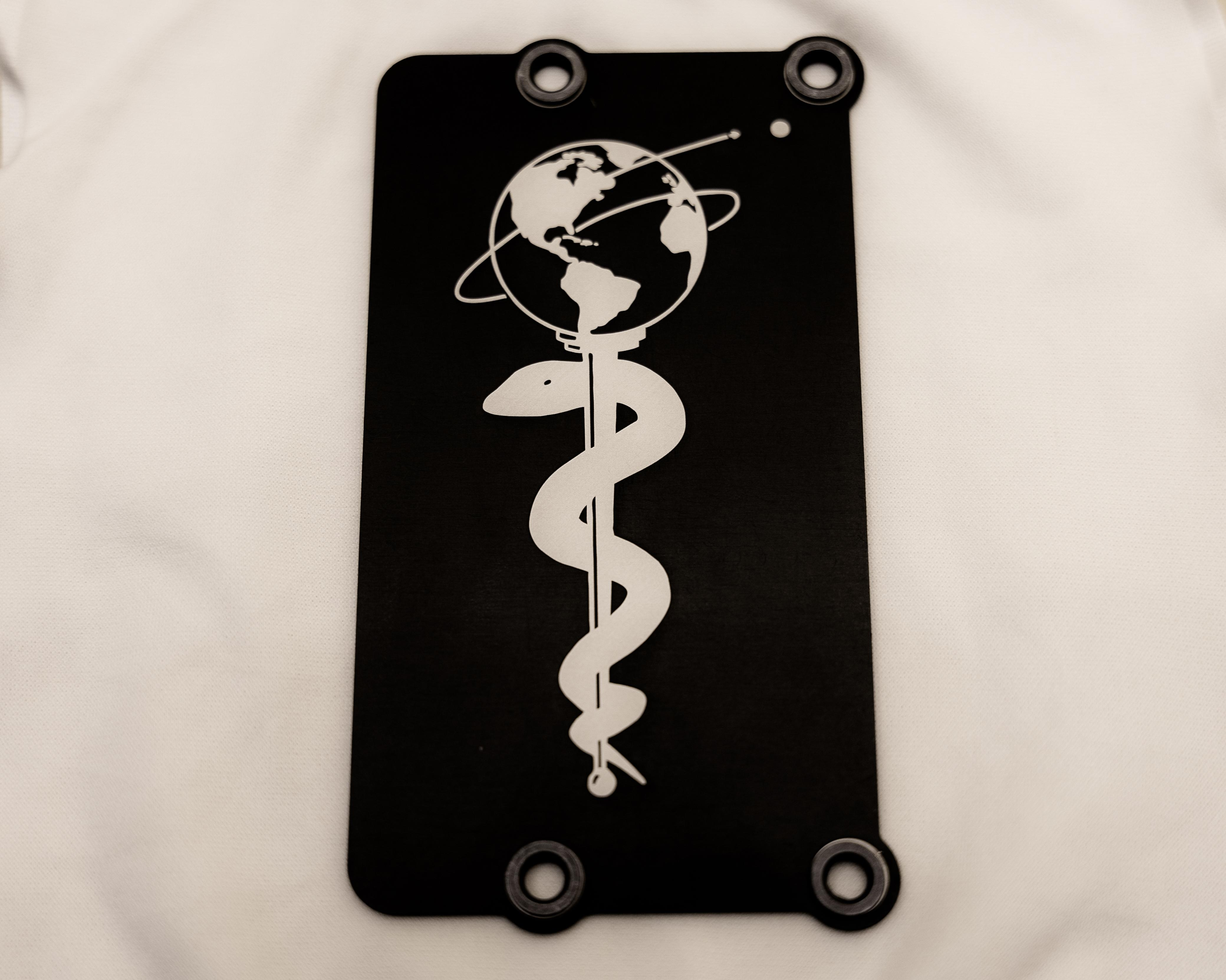 PIA23921: Healthcare Workers to Be Honored on Mars Attached to the Perseverance Mars rover, this aluminum plate commemorates the impact of the COVID-19 pandemic and pays tribute to the perseverance of healthcare workers around the world. Members of NASA's Mars 2020 Perseverance rover mission installed a plate on the left side of the rover chassis, commemorating the impact of the COVID-19 pandemic and paying tribute to the perseverance of healthcare workers around the world. Made of aluminum, the 3-by-5-inch (8-by-13-centimeter) plaque was attached to the rover in May 2020 during final assembly at Kennedy Space Center in Florida. For more information about the mission, go to